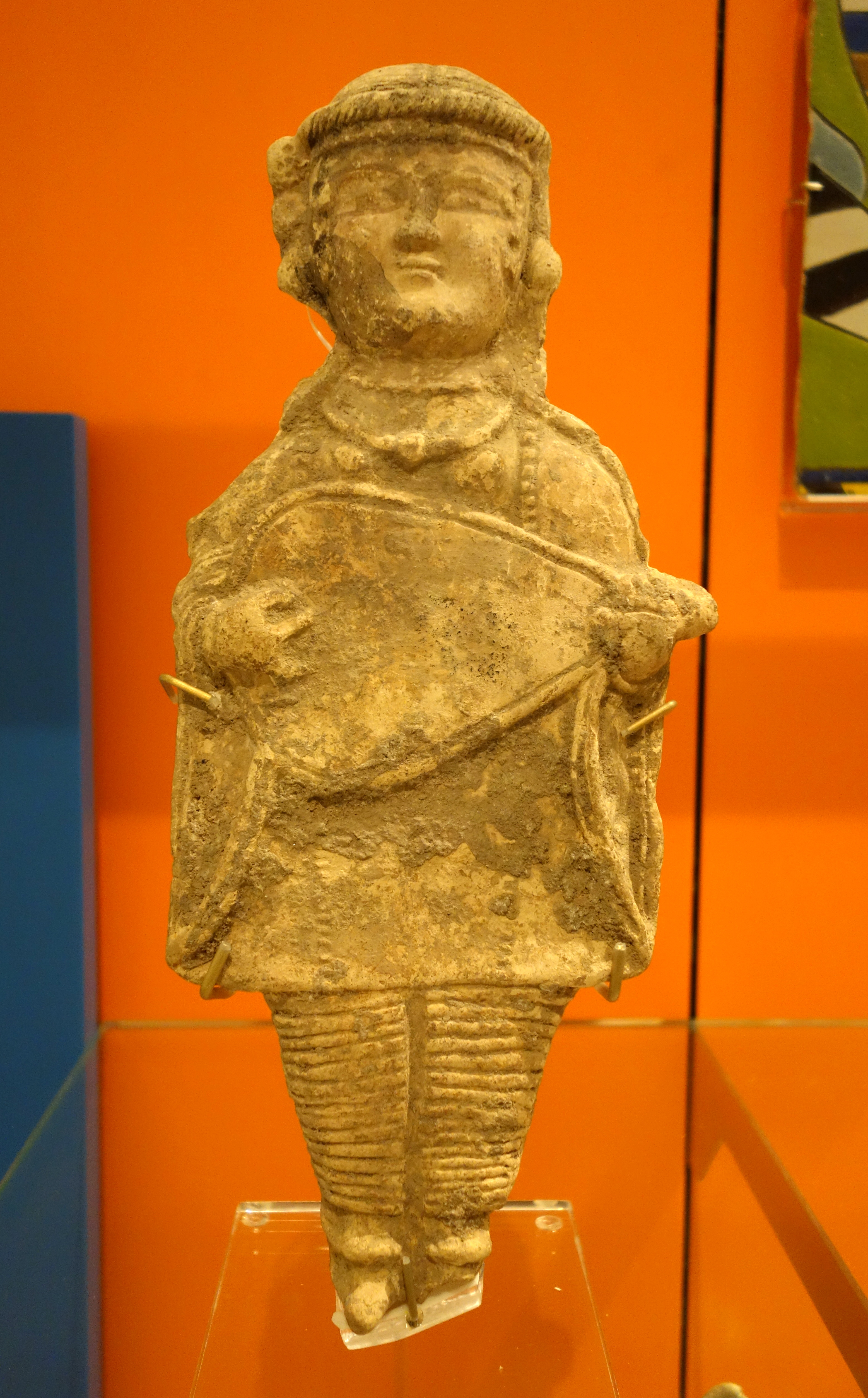 Exhibit in the Royal Ontario Museum, Toronto, Ontario, Canada. This work is old enough so that it is in the public domain.